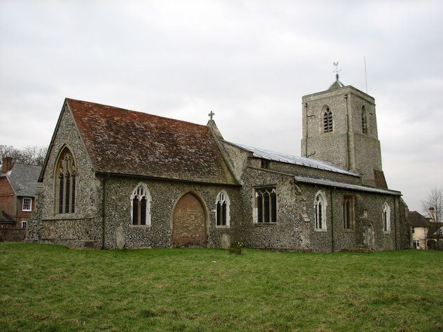 All Saints Church - Sandon, Hertfordshire. This church dates back to the 14th century but was partially restored in 1875. The tower is propped up with unusual brick buttresses.